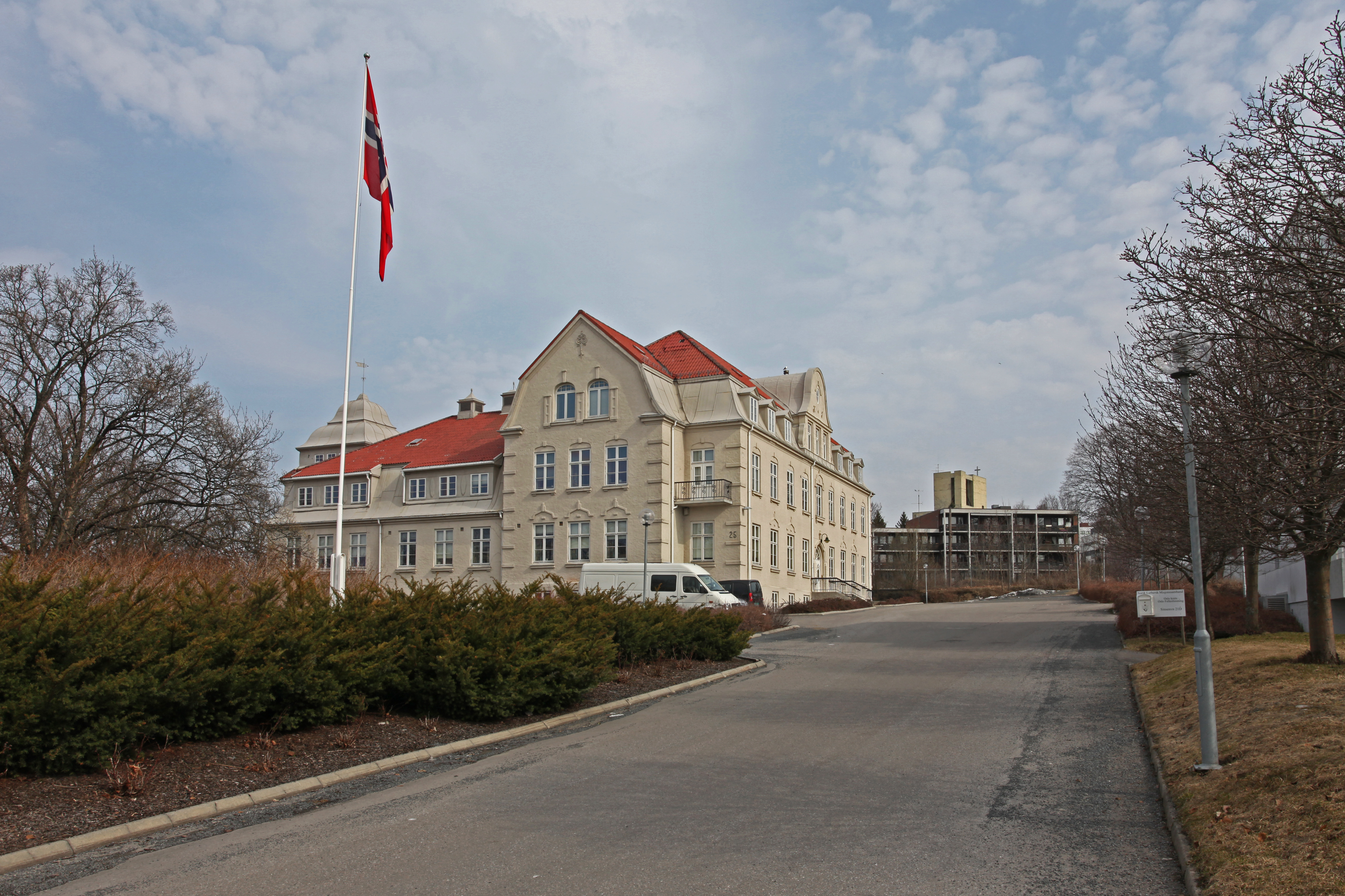 Picture of Fjellhaug skoler (Oslo - Norway)